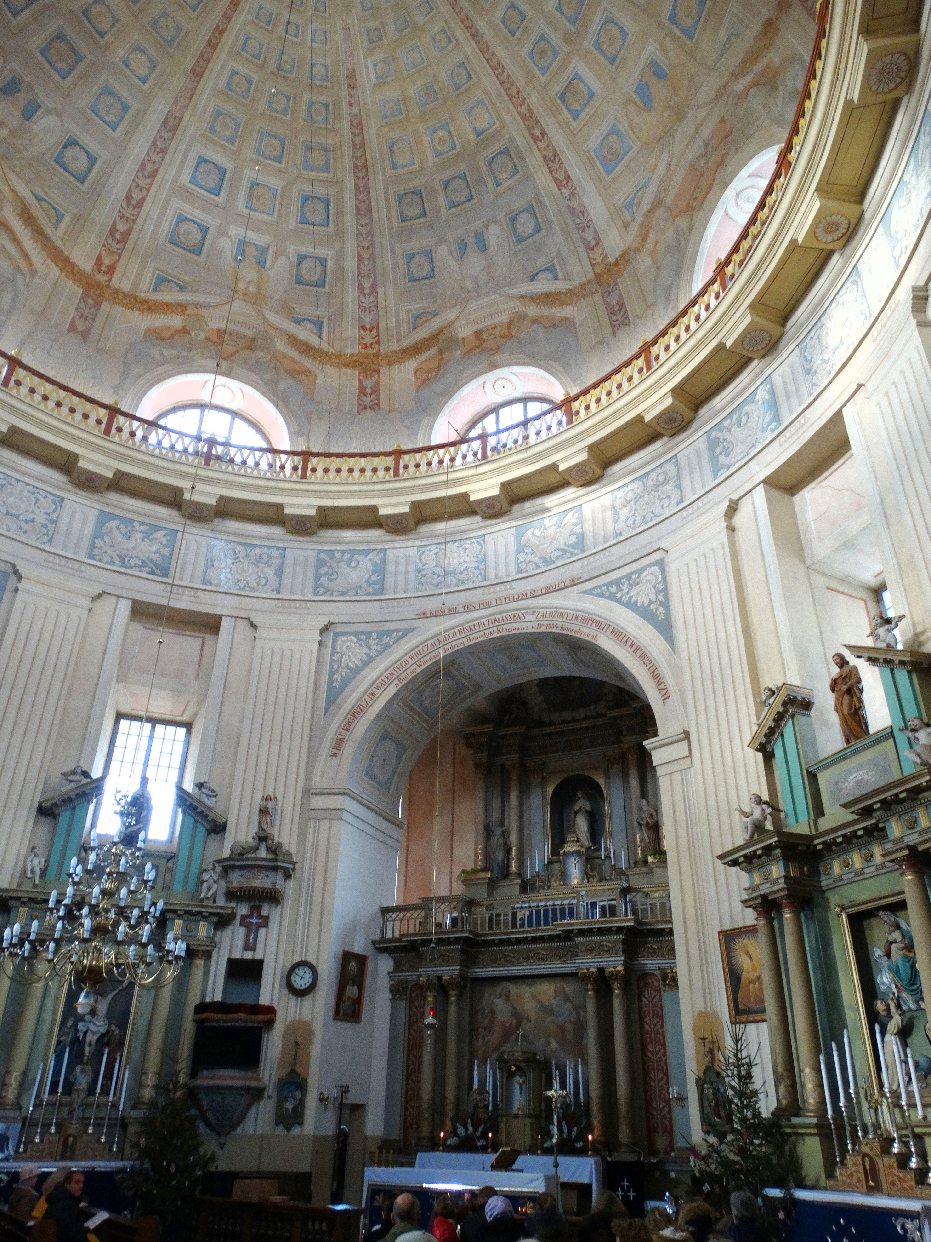 Church, Sudervė, Vilnius district, Lithuania